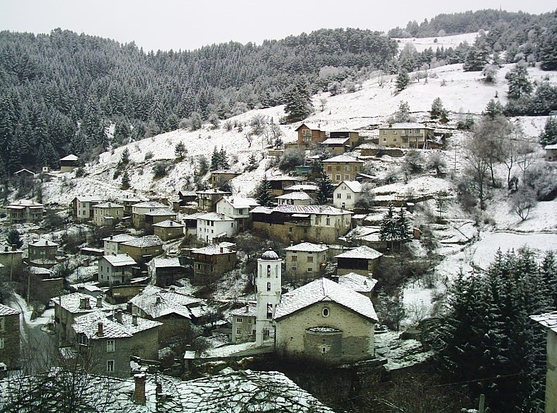 Sitovo village(winter season)